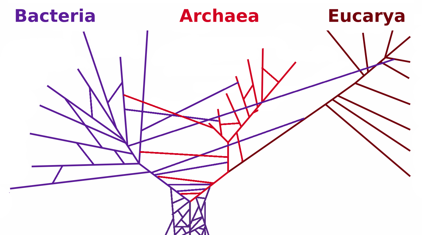 Modified version of Image:PhylogeneticTree.png showing horizontal gene transfer events, based on